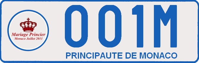 License plate of Monaco used for marriage of Albert II, Prince of Monaco, and Charlene Wittstock, July 1st 2011